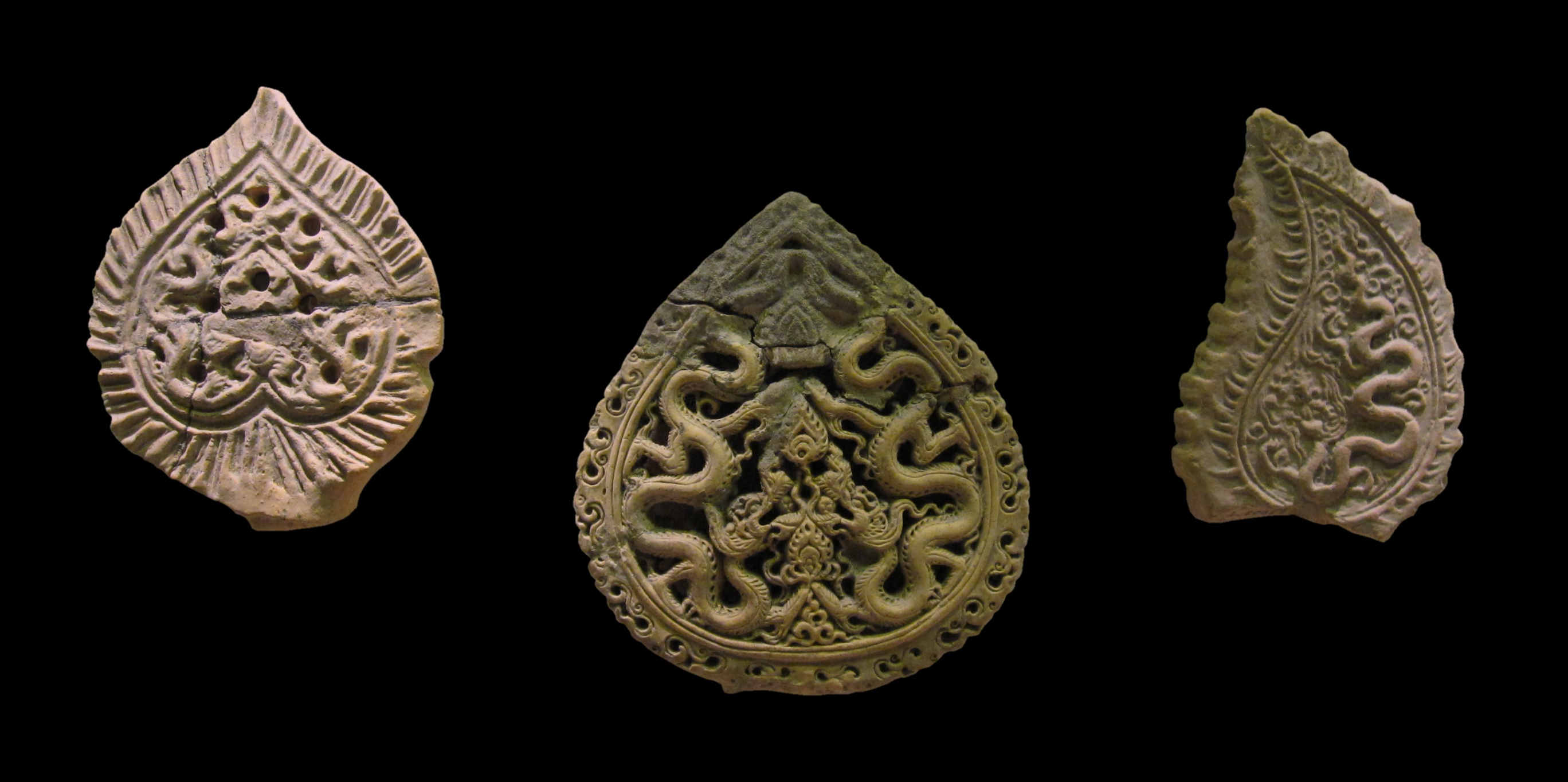 Bodhi leaves with dragon motif. Terracotta, Lý-Trần dynasties, 11th-14th century. Architectural decoration. National Museum of Vietnamese History, Hanoi.